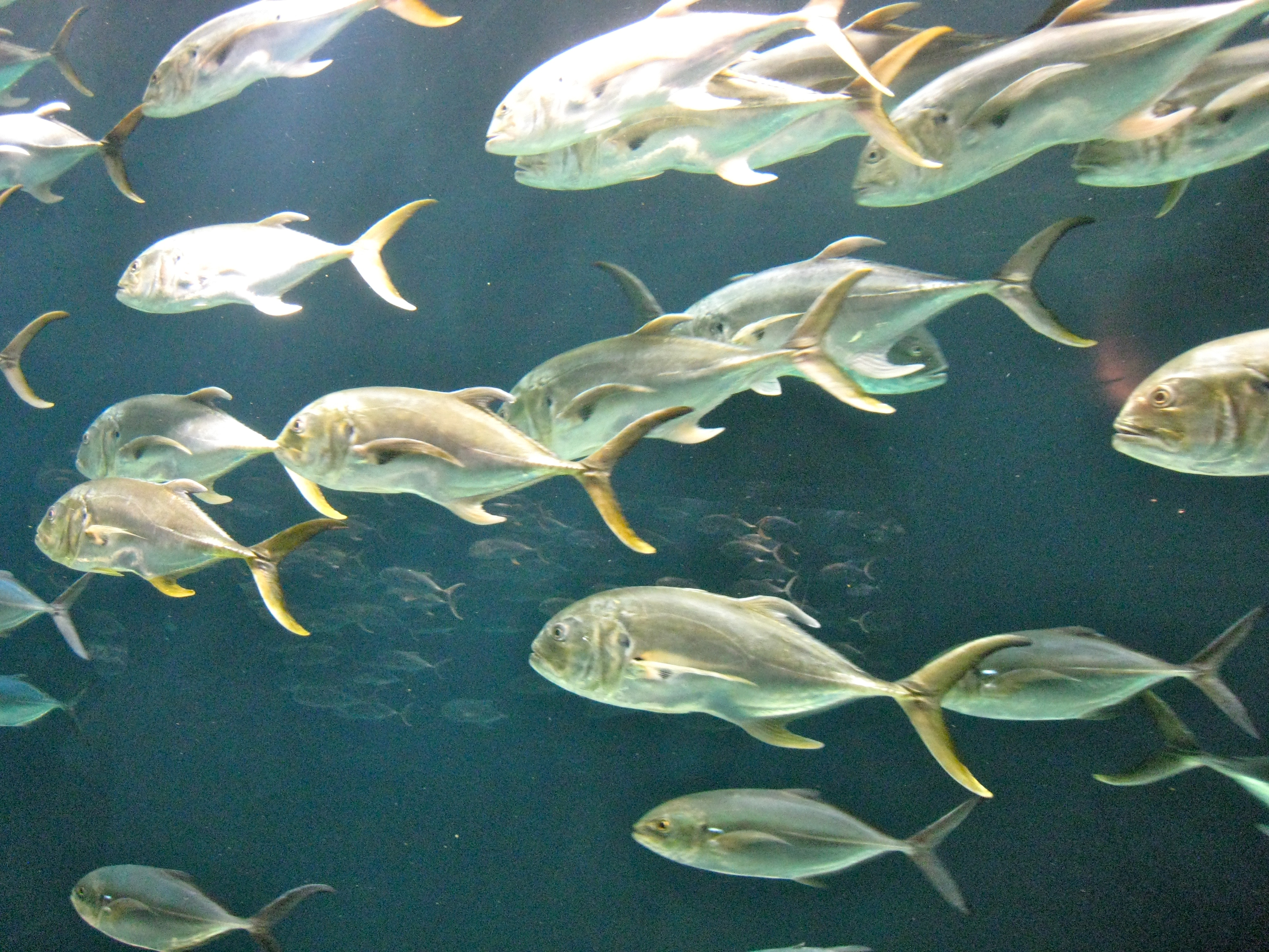 Flickr tool template follows: Description At the entrance to the aquarium. New Jack Fishy... they swim, a lot. Date13 September 2009, 12:07SourceJacksAuthorKevin Lawver from Sterling, US Licensing